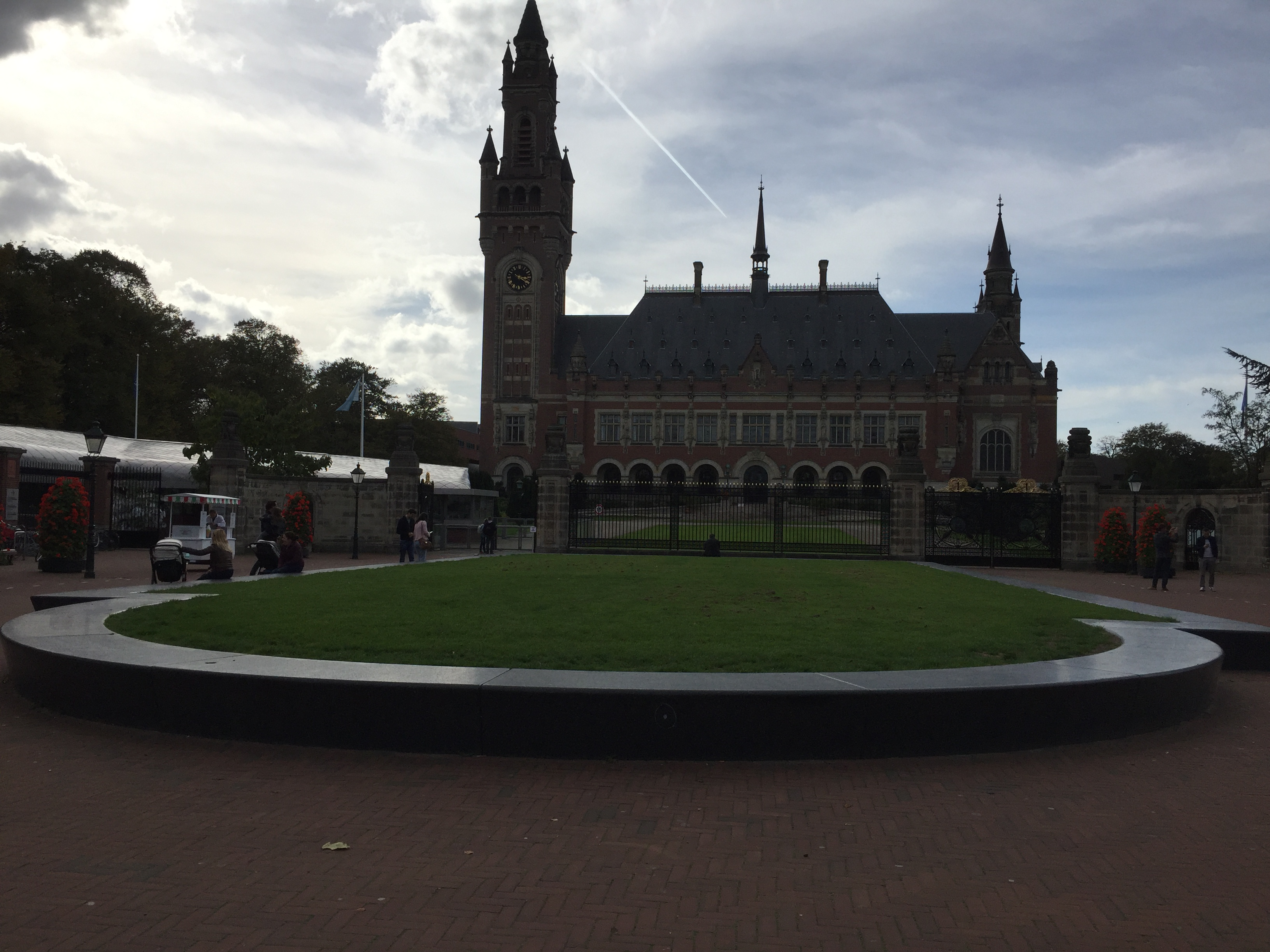 Peace palace in Den Haag